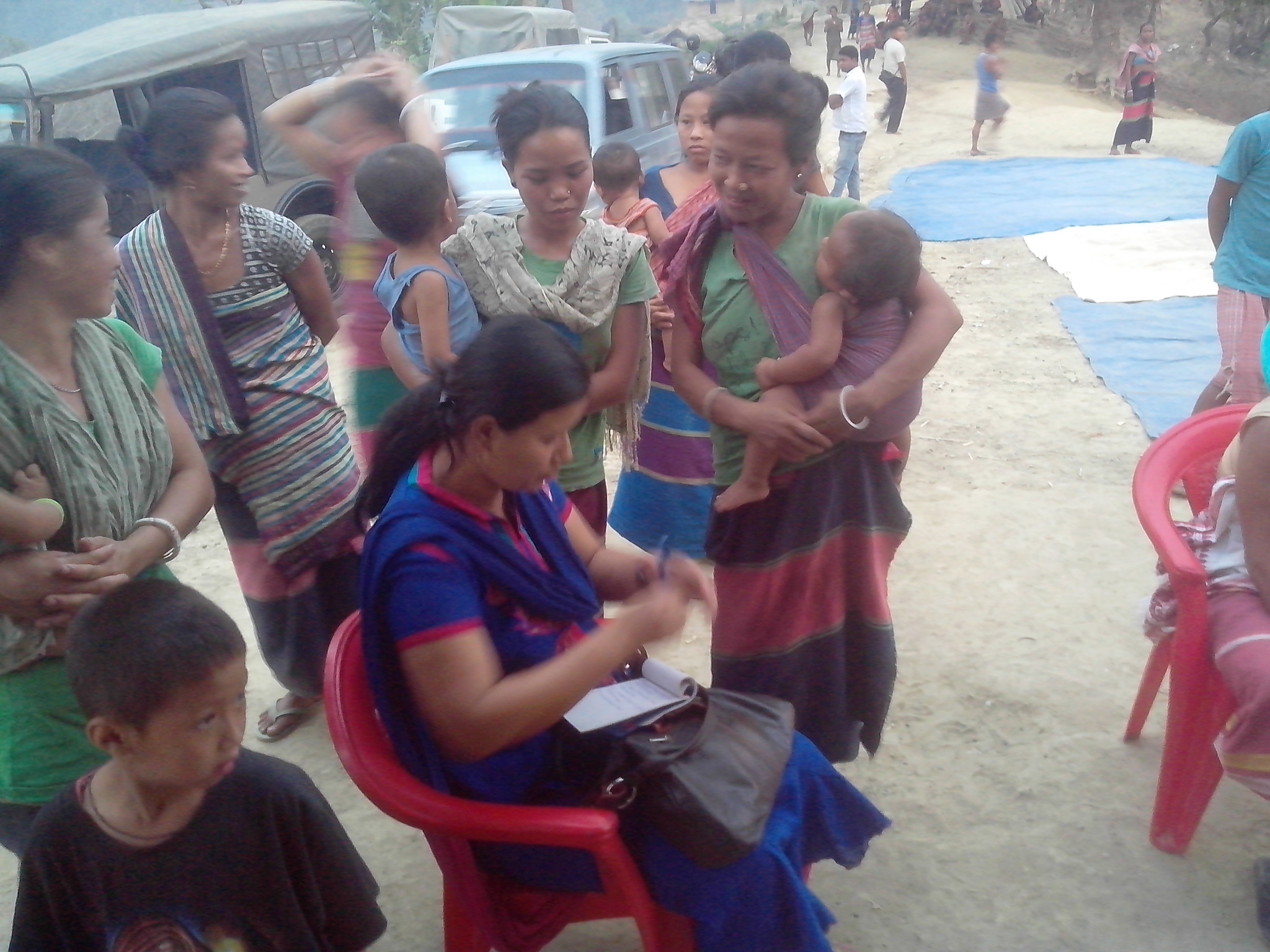 A lady doctor checks patients in Srinibash para of Kathalbari VC, Ambassa RD Block.